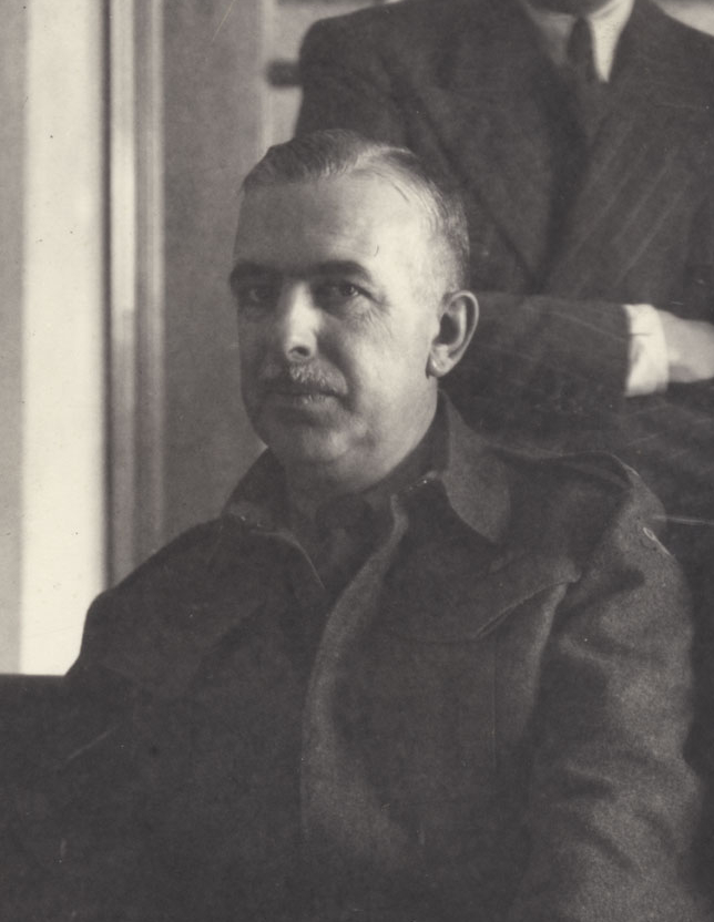 cropped picture from File:Les Sept aux Archives nationales, Ottawa, decembre 1944.jpg